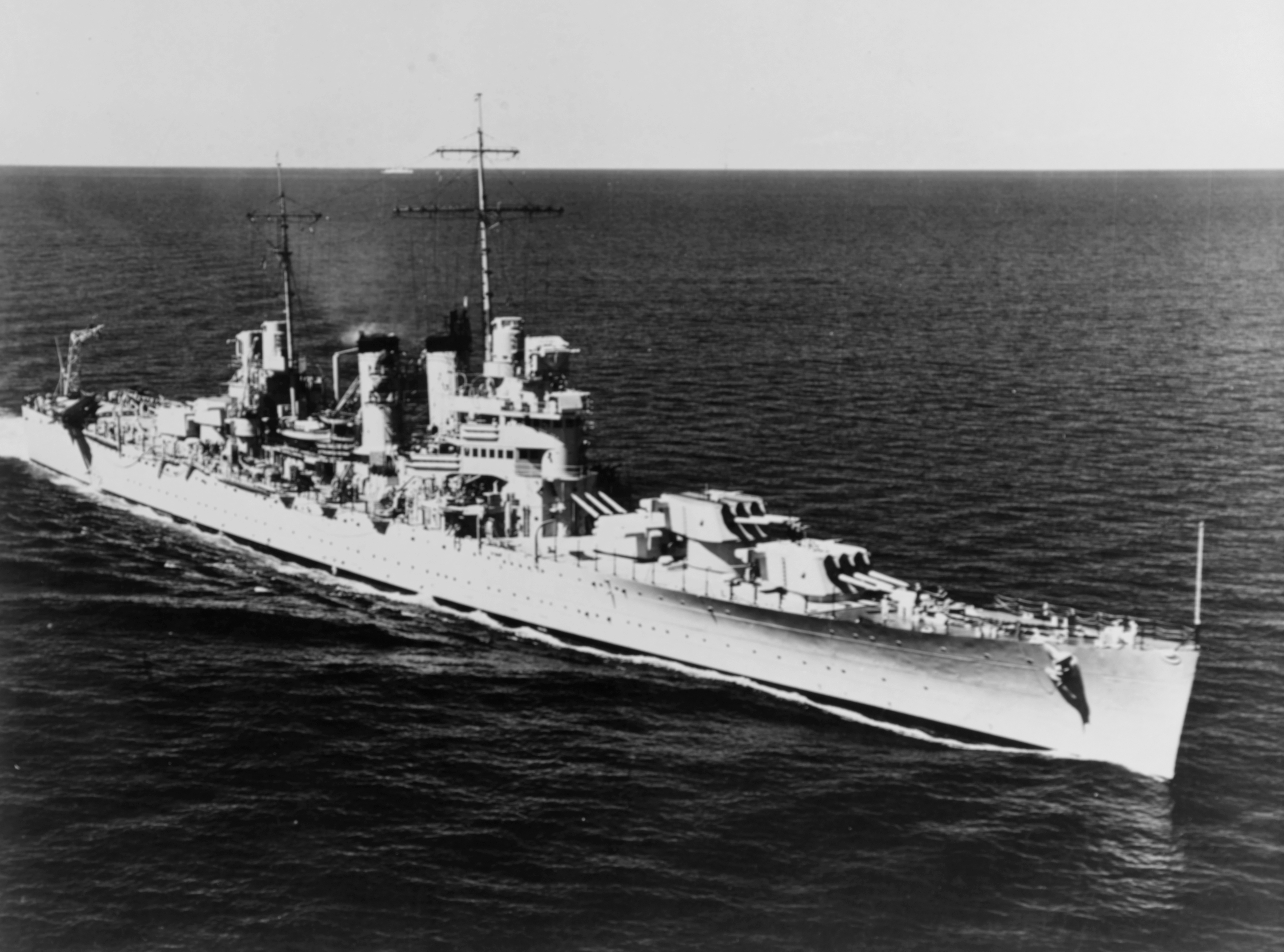 The U.S. Navy light cruiser USS Honolulu (CL-48) underway at sea on 9 February 1939.